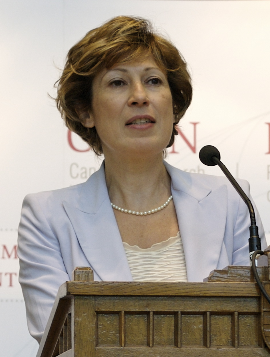 Dr. Mona Nemer - VP Research, University of Ottawa - Canadian Research Knowledge Network